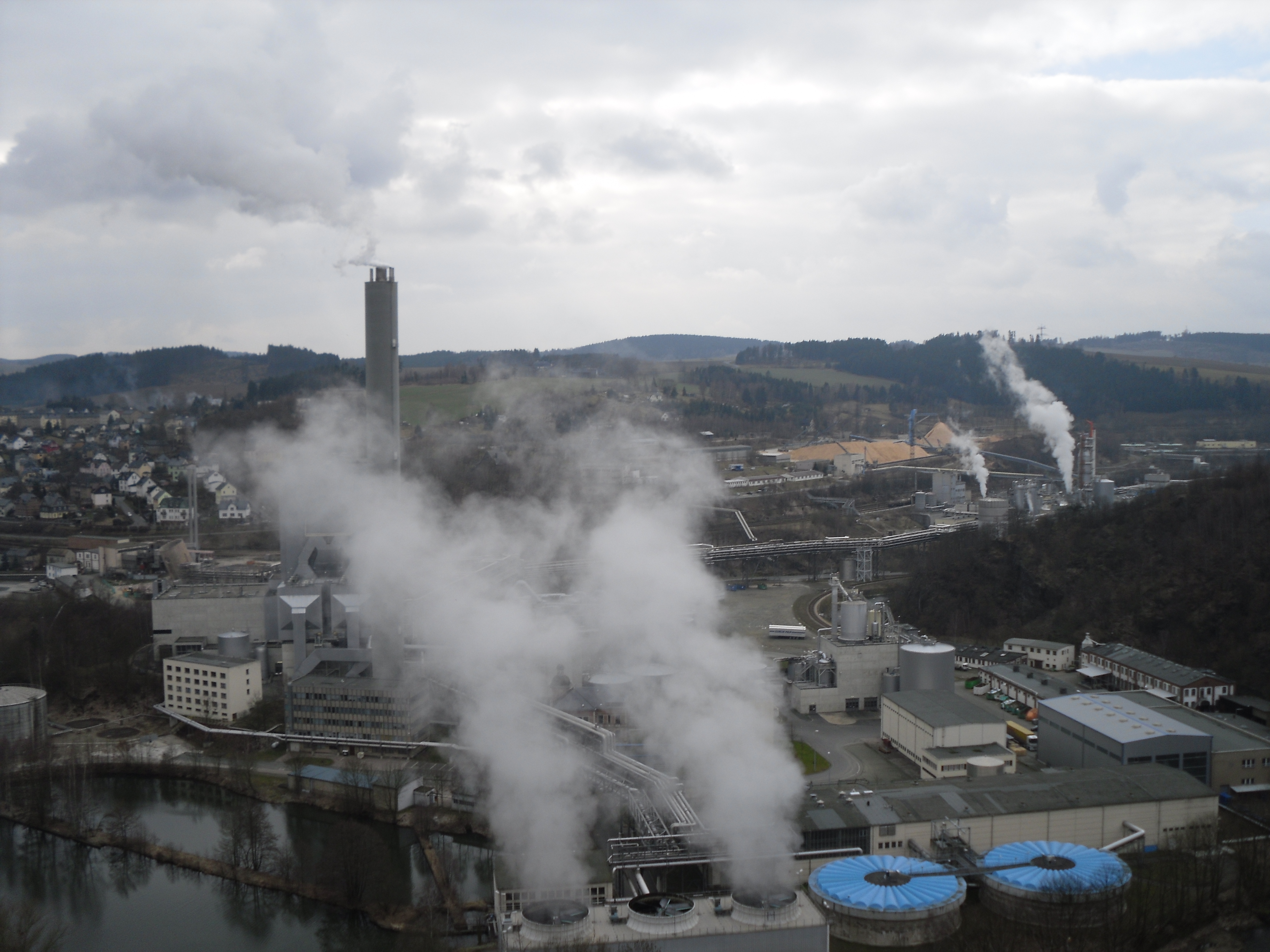 ZPR seen from the observation deck near Blankenberg